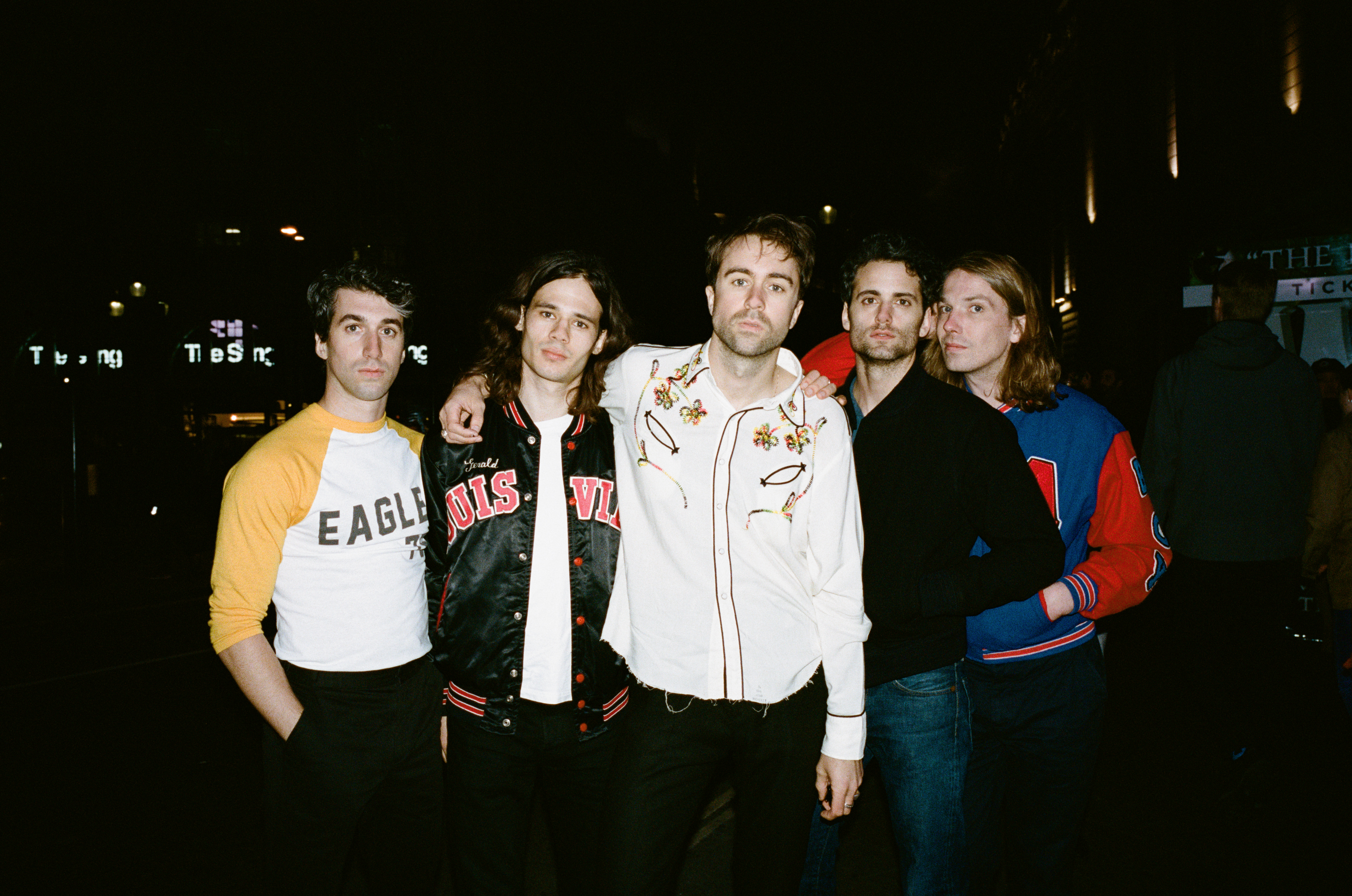 The Vaccines, 2017. Photo by Brad Elterman.